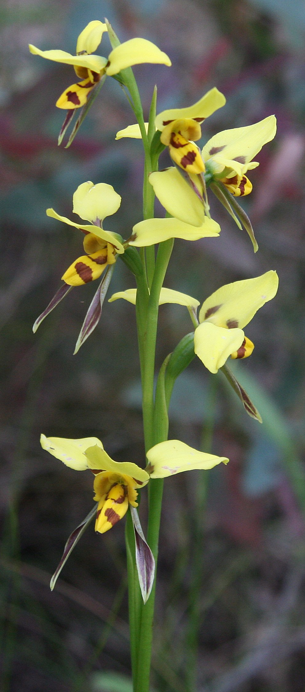 tiger orchid (Diuris sulphurea), near Ridge St, Lawson in Blue Mtns